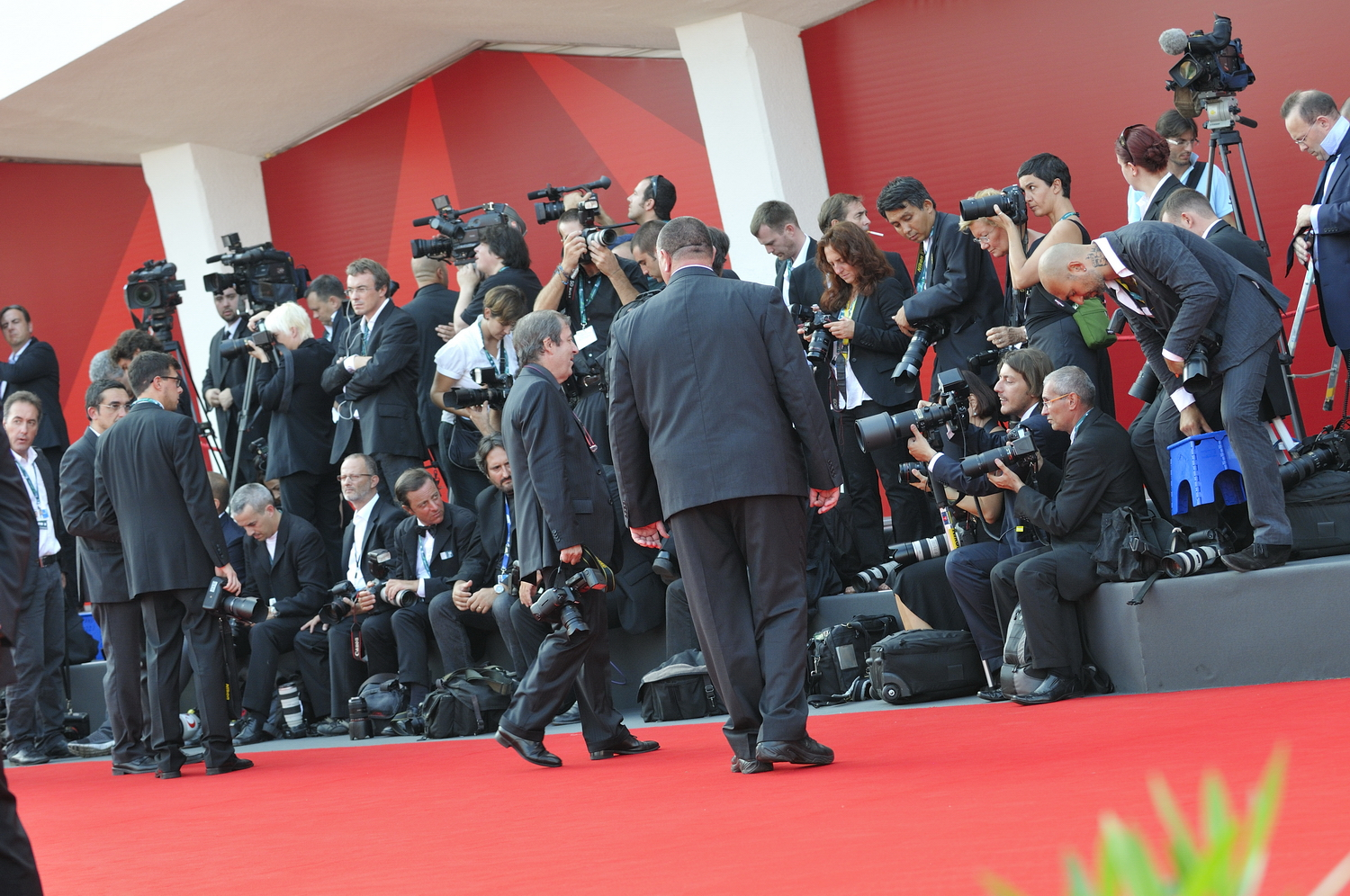 Photographers at the red carpet (2009 Venice Film Festival)